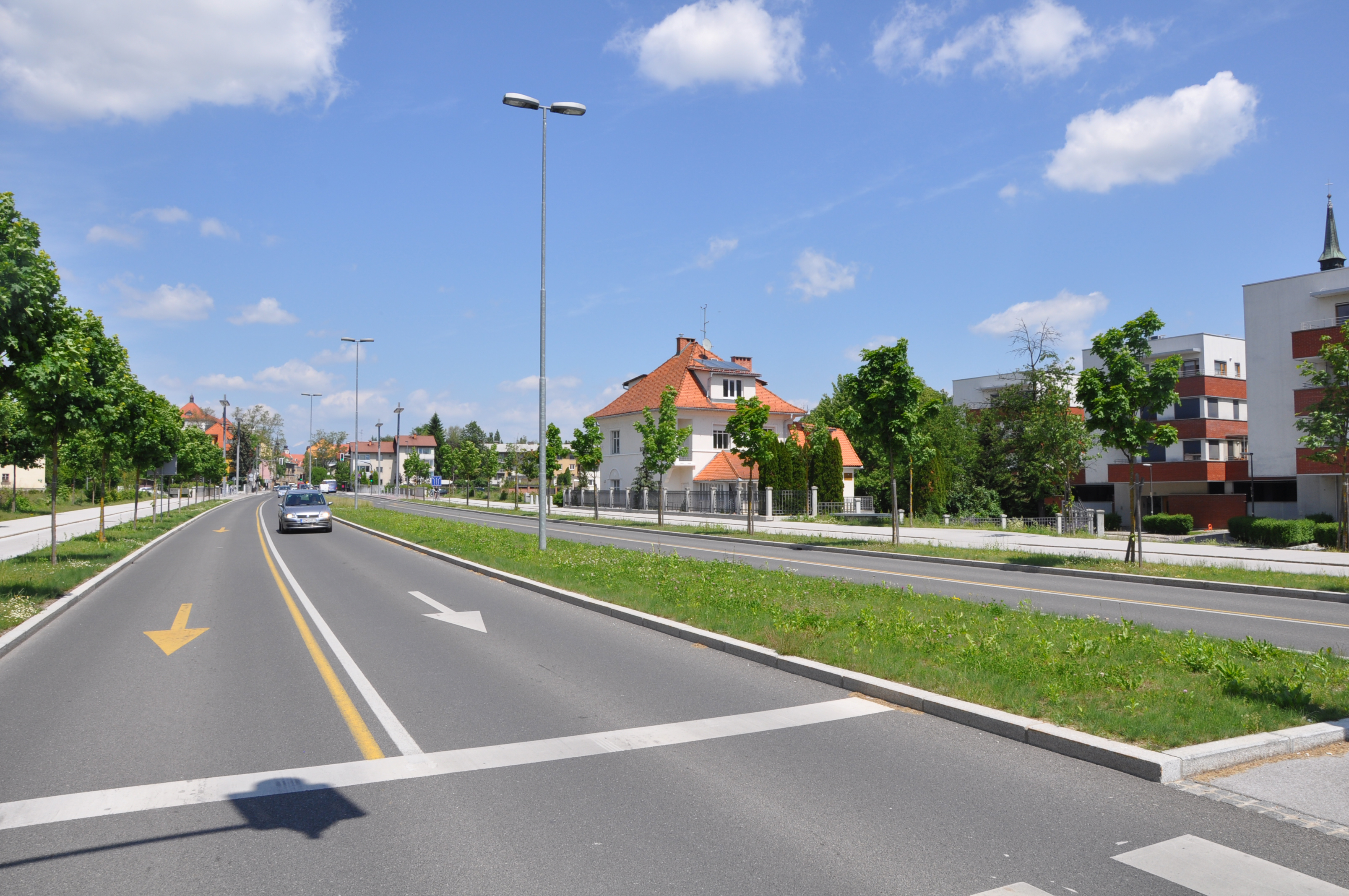 Kern, part of Ljubljana in 2012